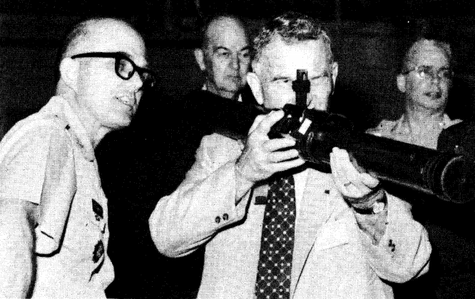 Deputy Secretary of Defense William Clements (right) aiming VIPER anti-tank rocket launcher during his visit to the Redstone, while Col. Hubert W. Lacquement stands on his left.